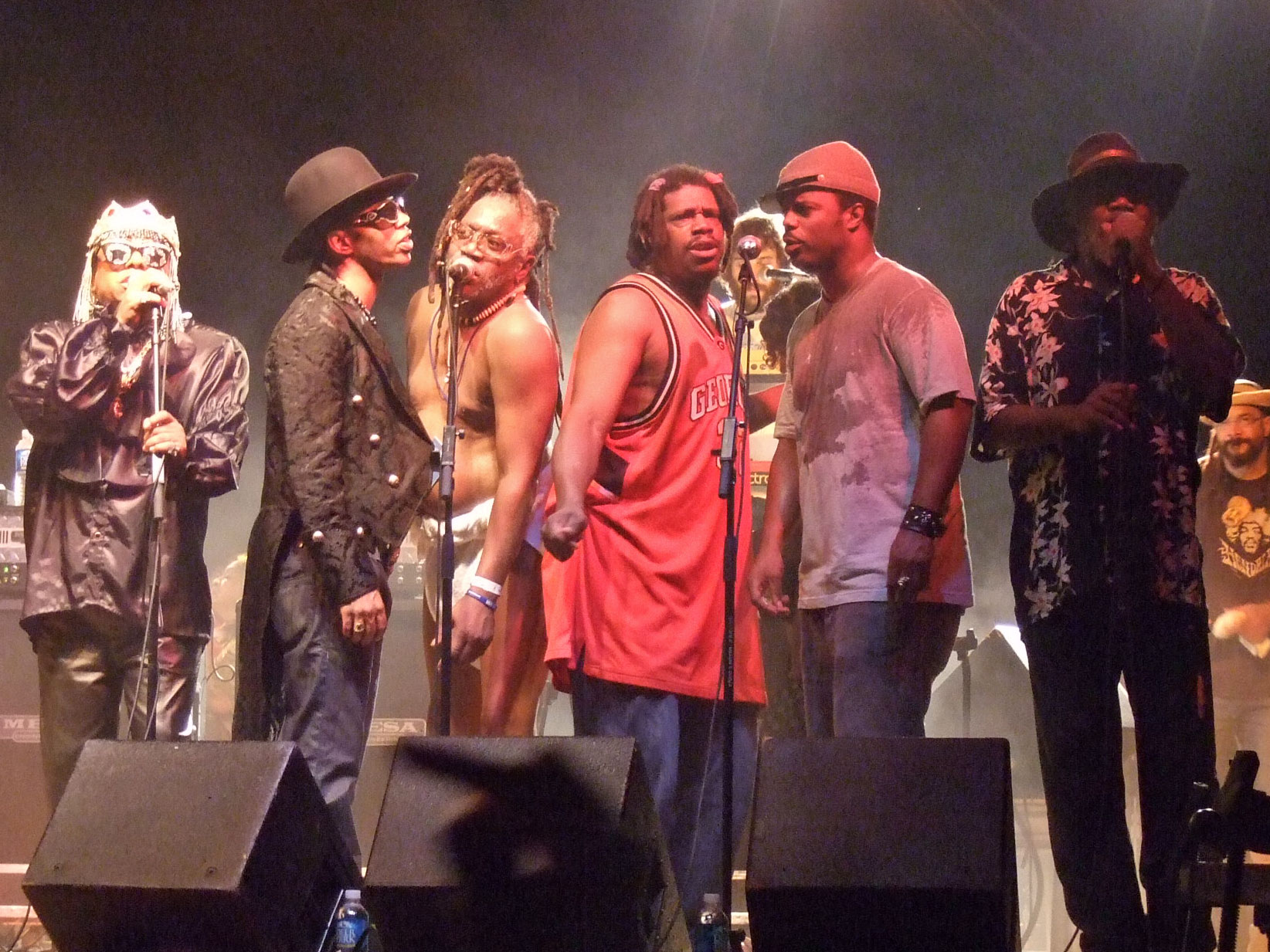 Parliament-Funkadelic performing at Capitol City Carnival in Centreville, Virginia on September 22, 2007.